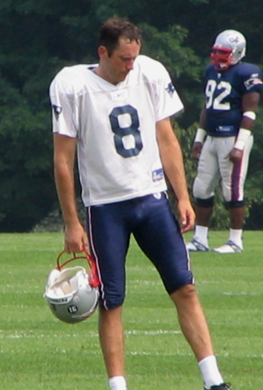 Former NFL punter Josh Miller for the Pittsburgh Steelers and New England Patriots.